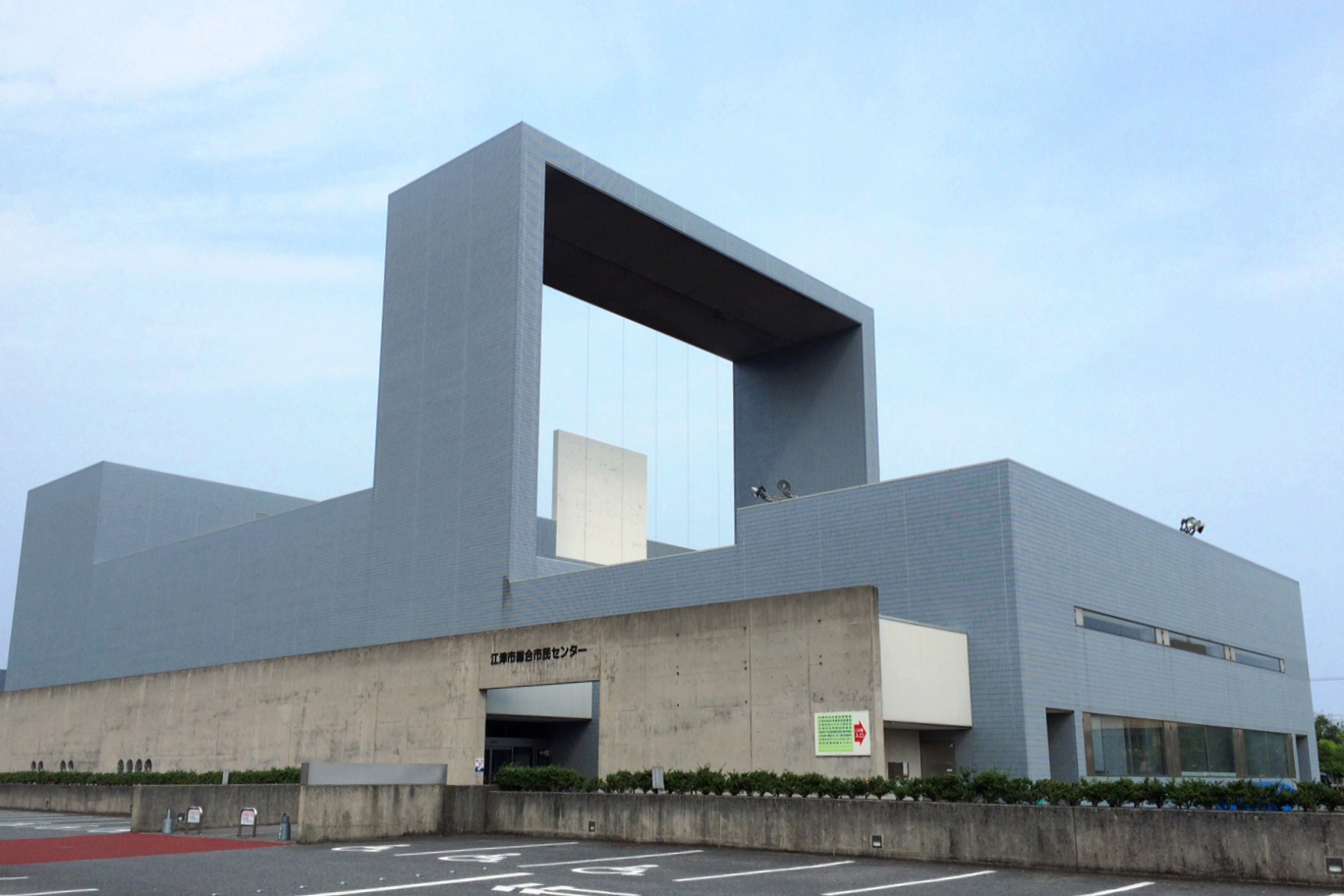 Milky Way Hall in Gotsu, Shimane prefecture, Japan.